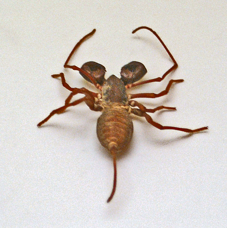 Hypoctonus formosus from Myanmar on display at the Museo Civico di Storia Naturale di Milano